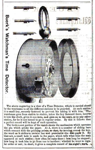 Ad for Buerk's, Boston MA